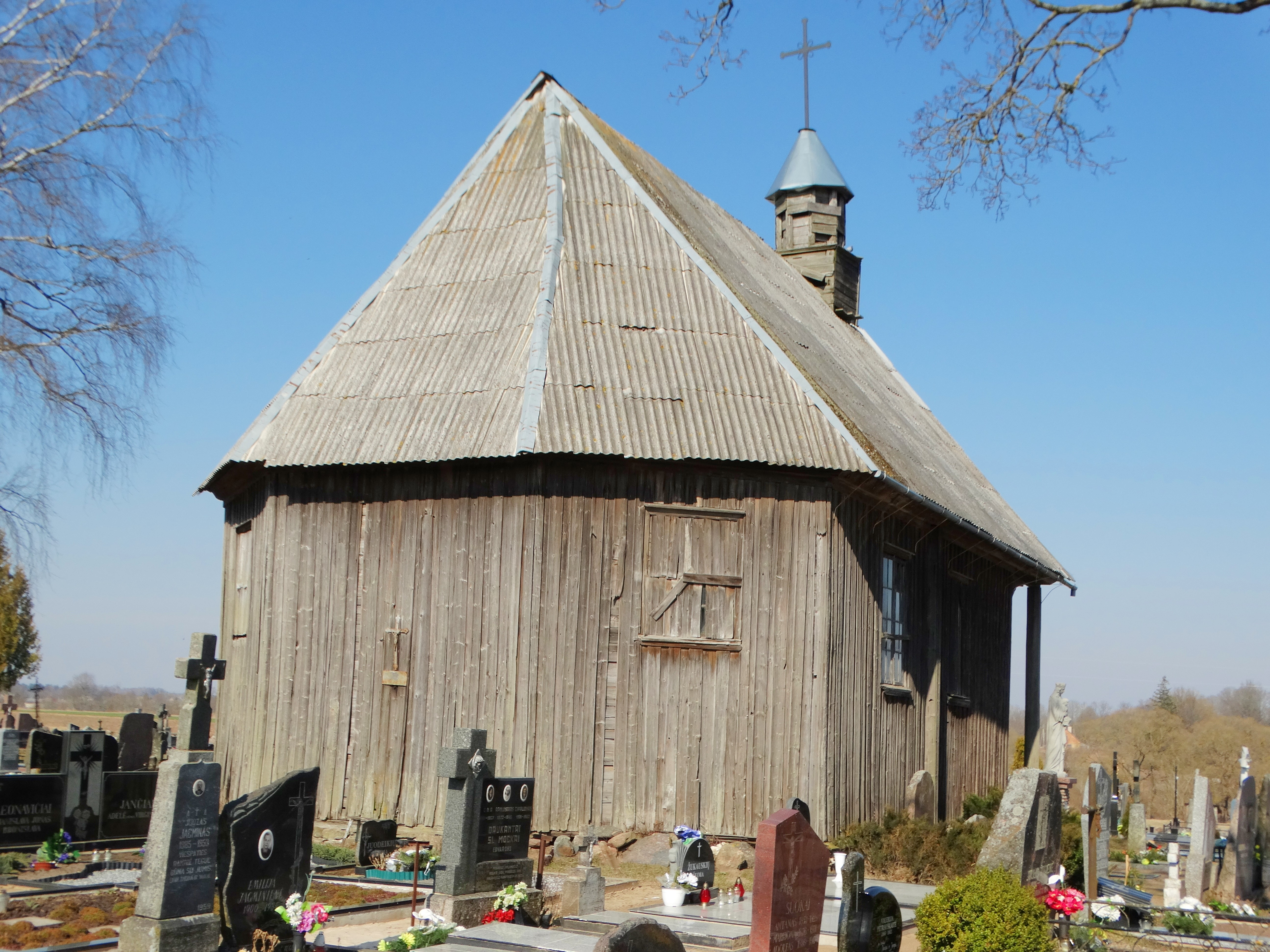 Chapel, Tryškiai, Telšiai district, Lithuania